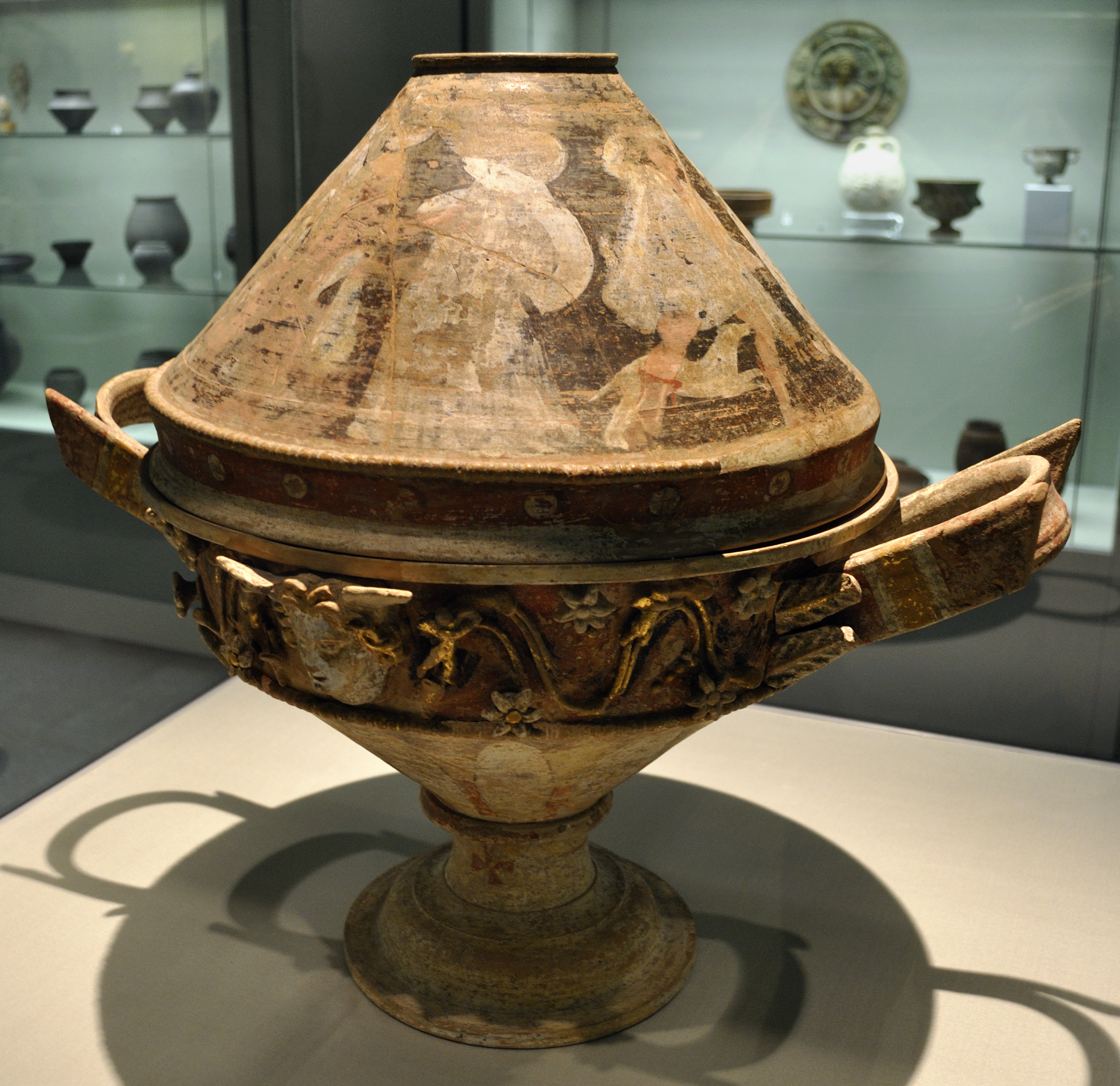 Picture taken in Hetjens-Museum Düsseldorf before Duisburg summer meetup 2010.